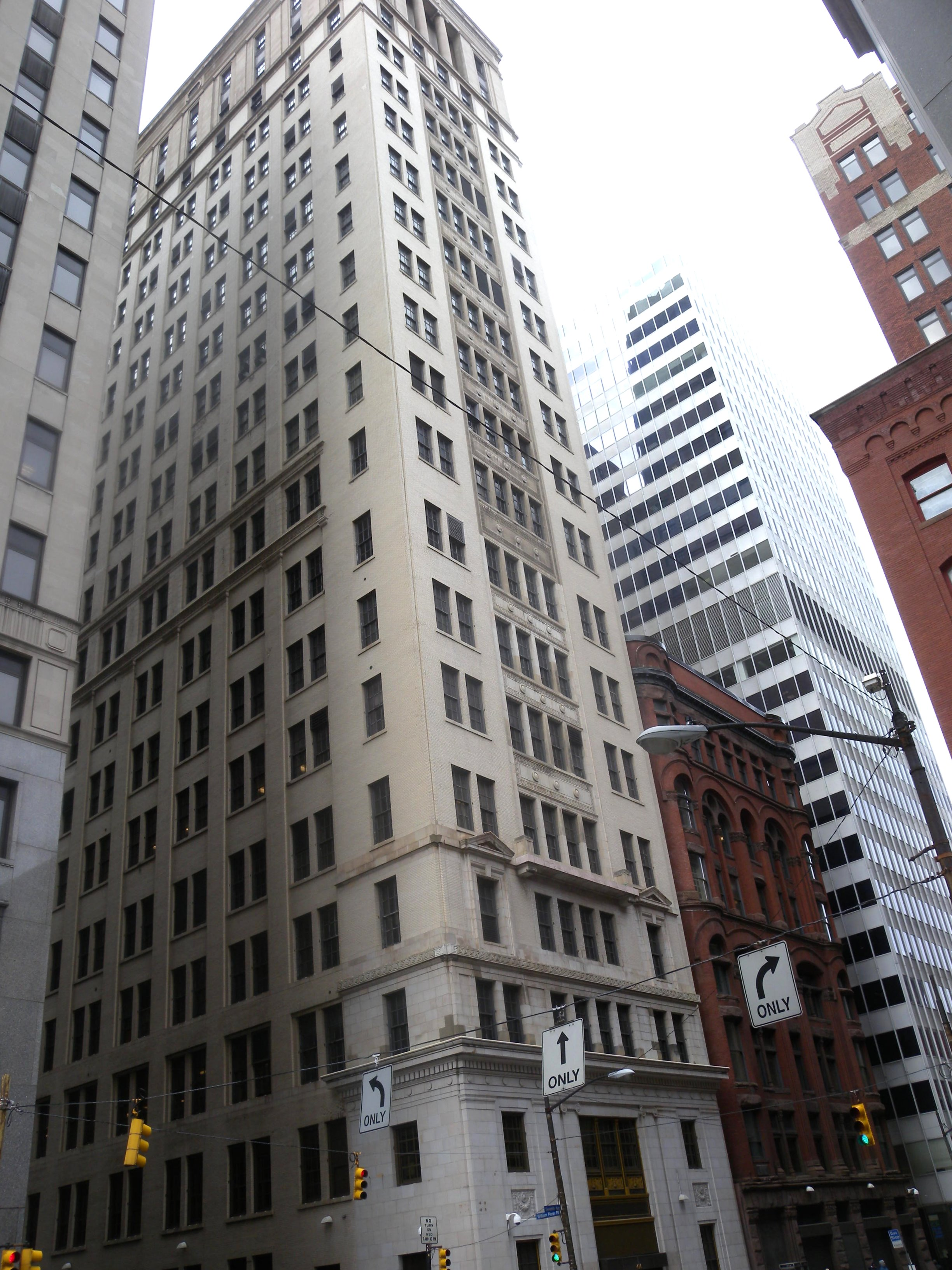 Looking west across 7th Avenue on a partly sunny late morning.